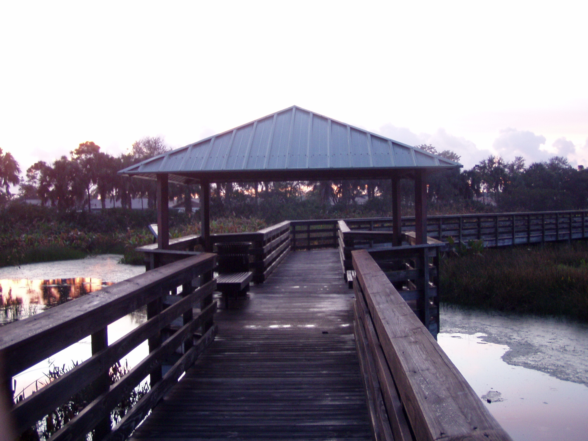 Boardwalk and Gazebo at Wakodahatchee Wetlands, in Boynton Beach, Florida.